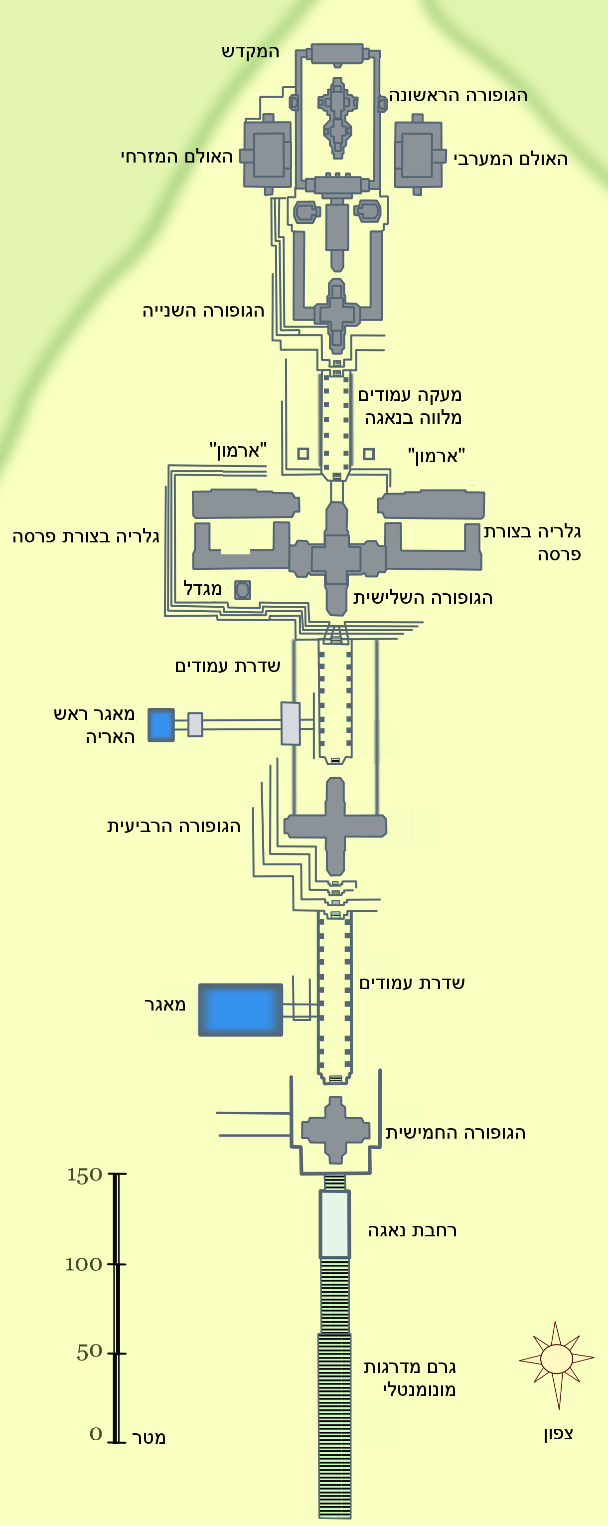 Plan preahvihear Hebrew